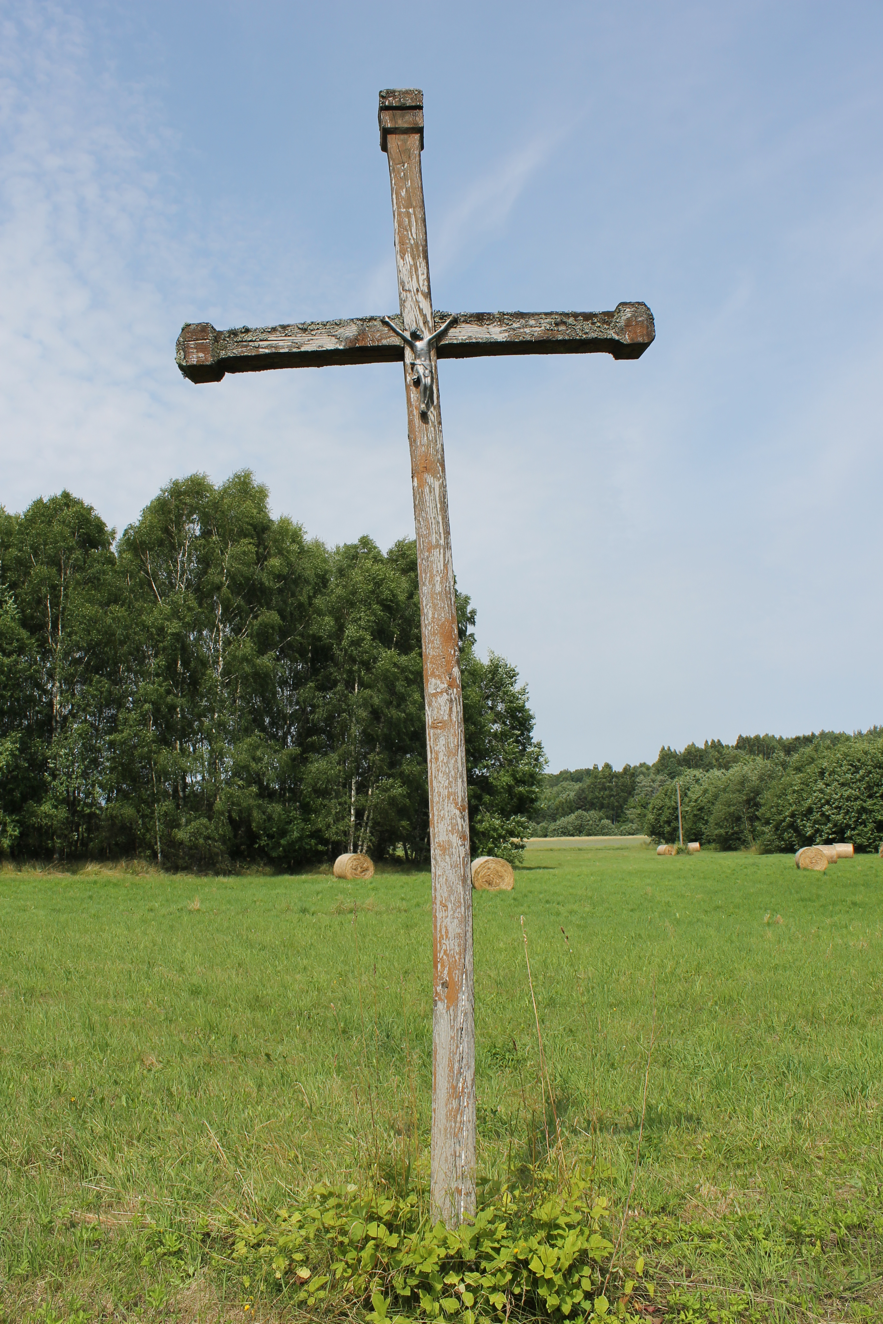 Dauginčiai, Kretinga district, LithuaniaLietuvių: Dauginčių medinis pakelės kryžius, Kretingos rajonas, Lietuva